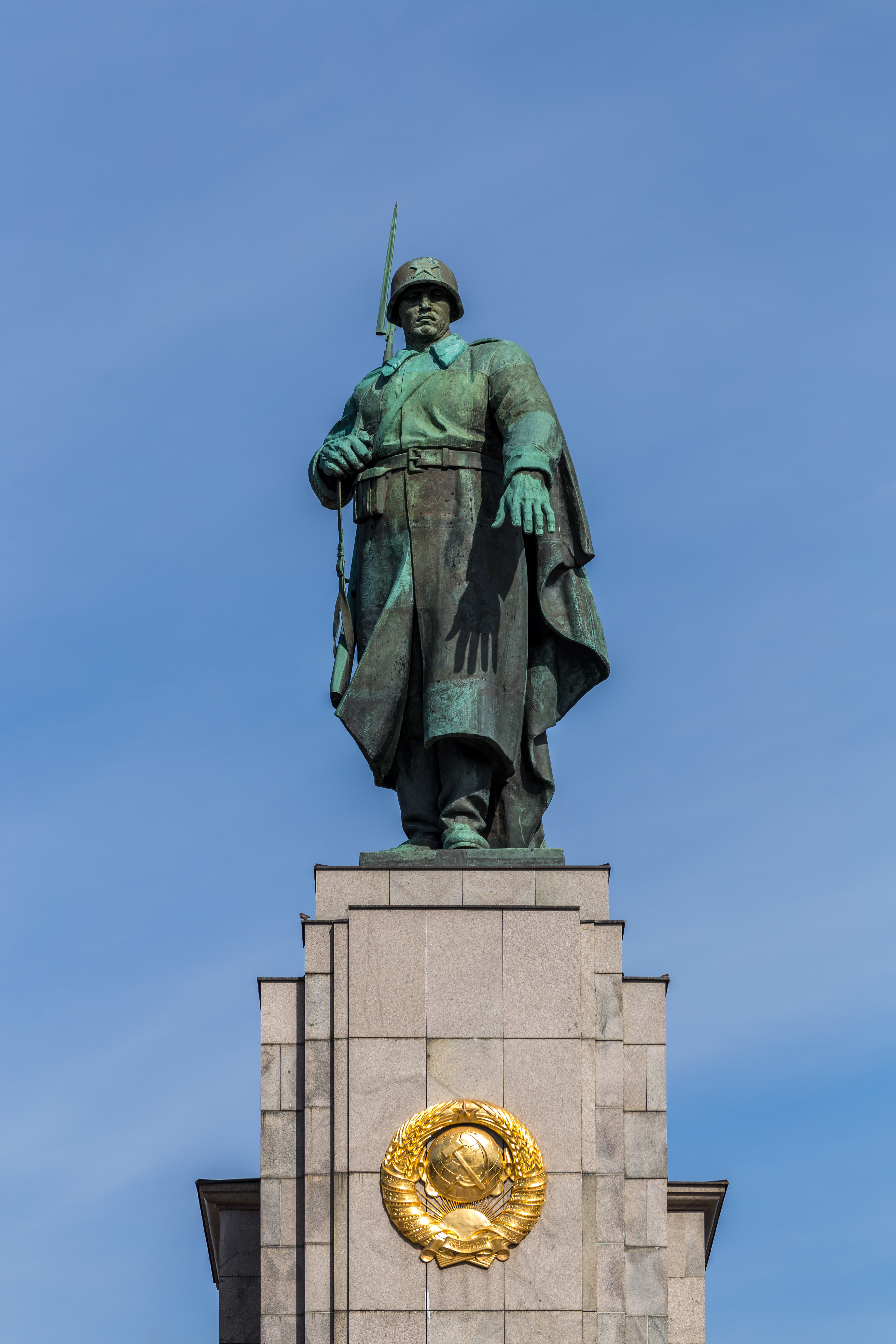 Bronze statue of a Red Army soldier with shouldered rifle to the Soviet War Memorial in Berlin-Tiergarten. The statue was created by Lew Kerbel.